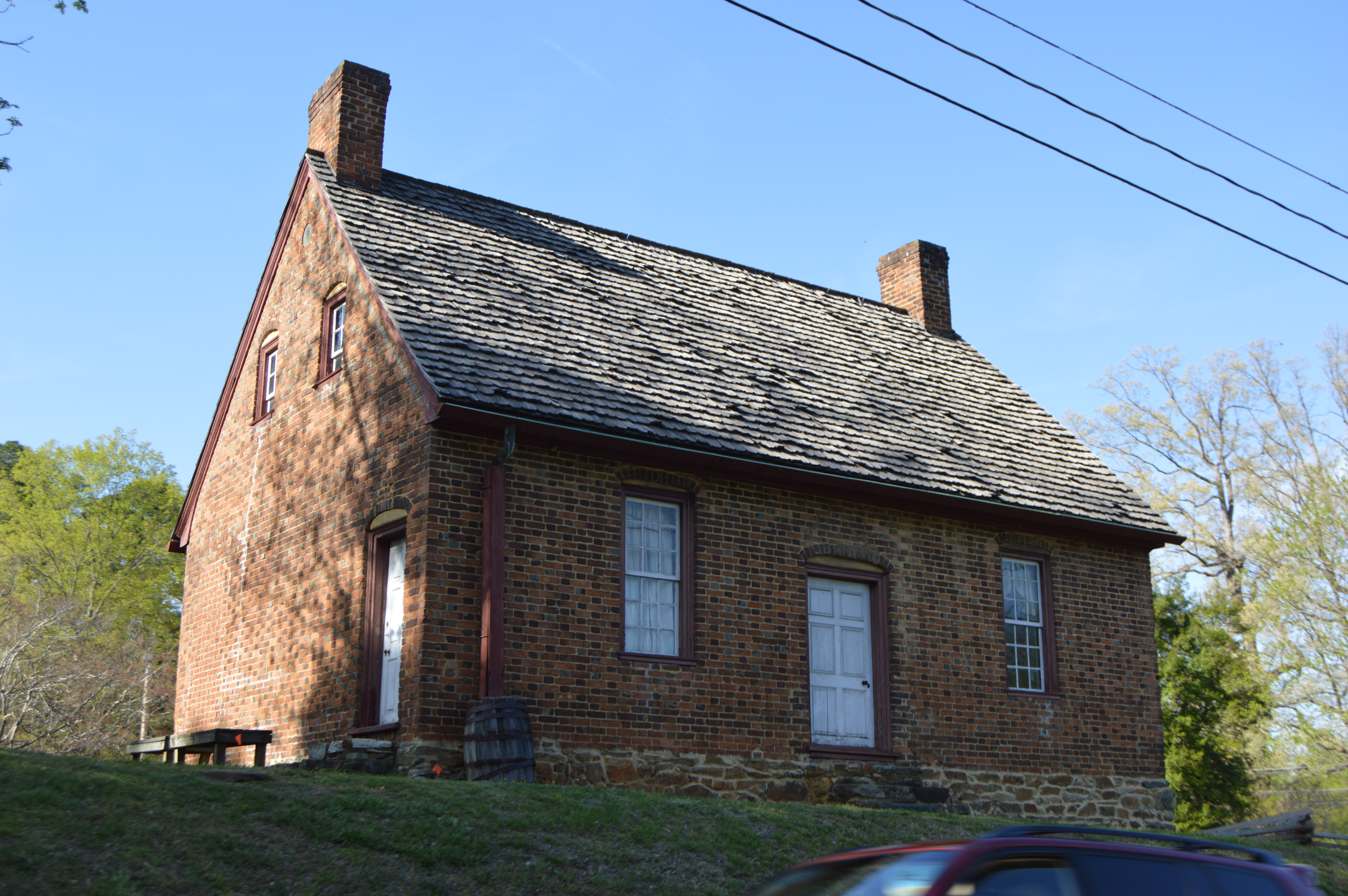 Front of the former John Haley House, located at 1805 E. Lexington Avenue in High Point, North Carolina, United States. Built in 1786, it is listed on the National Register of Historic Places.